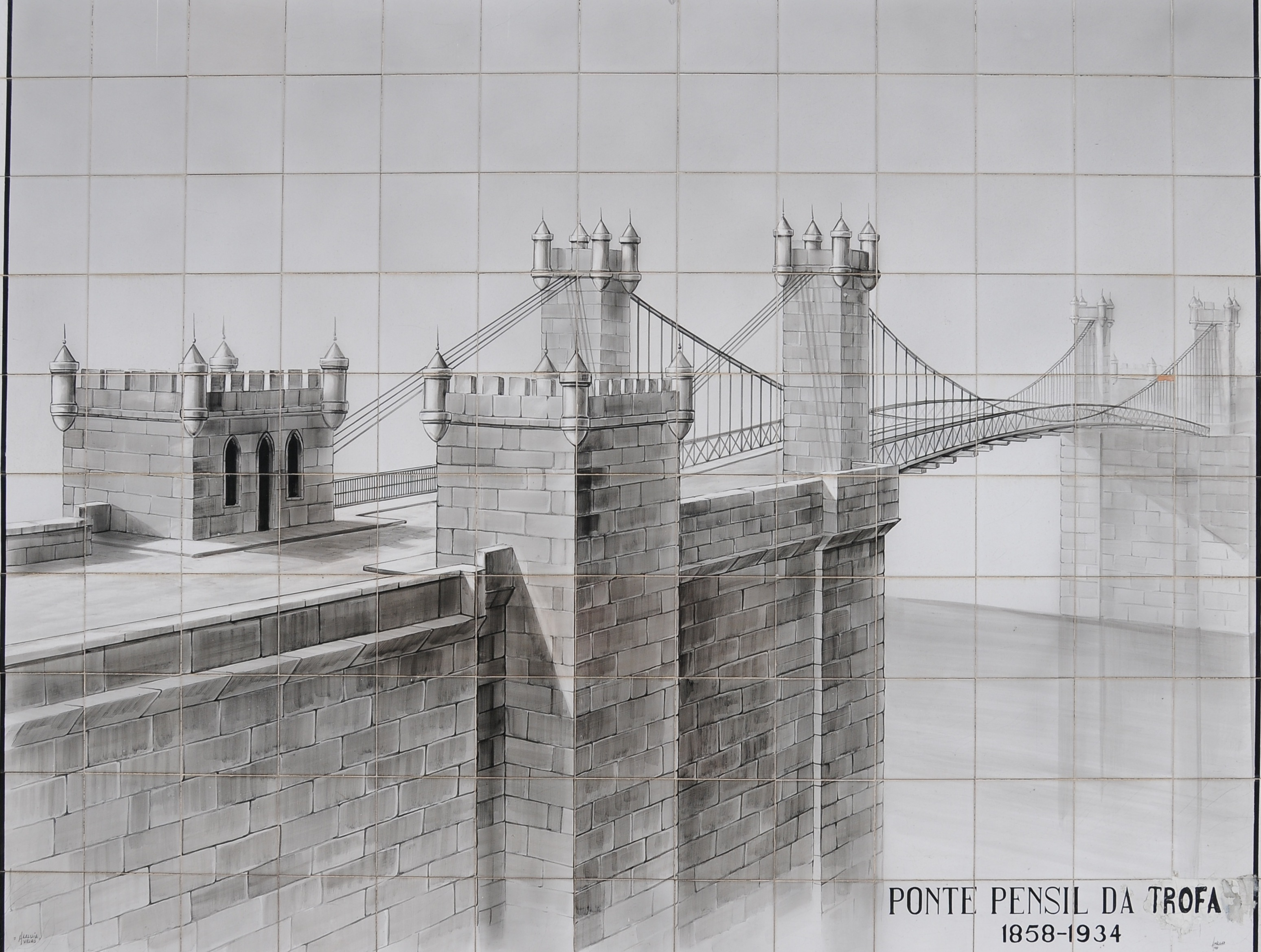 Azulejos in Trofa Portugal.